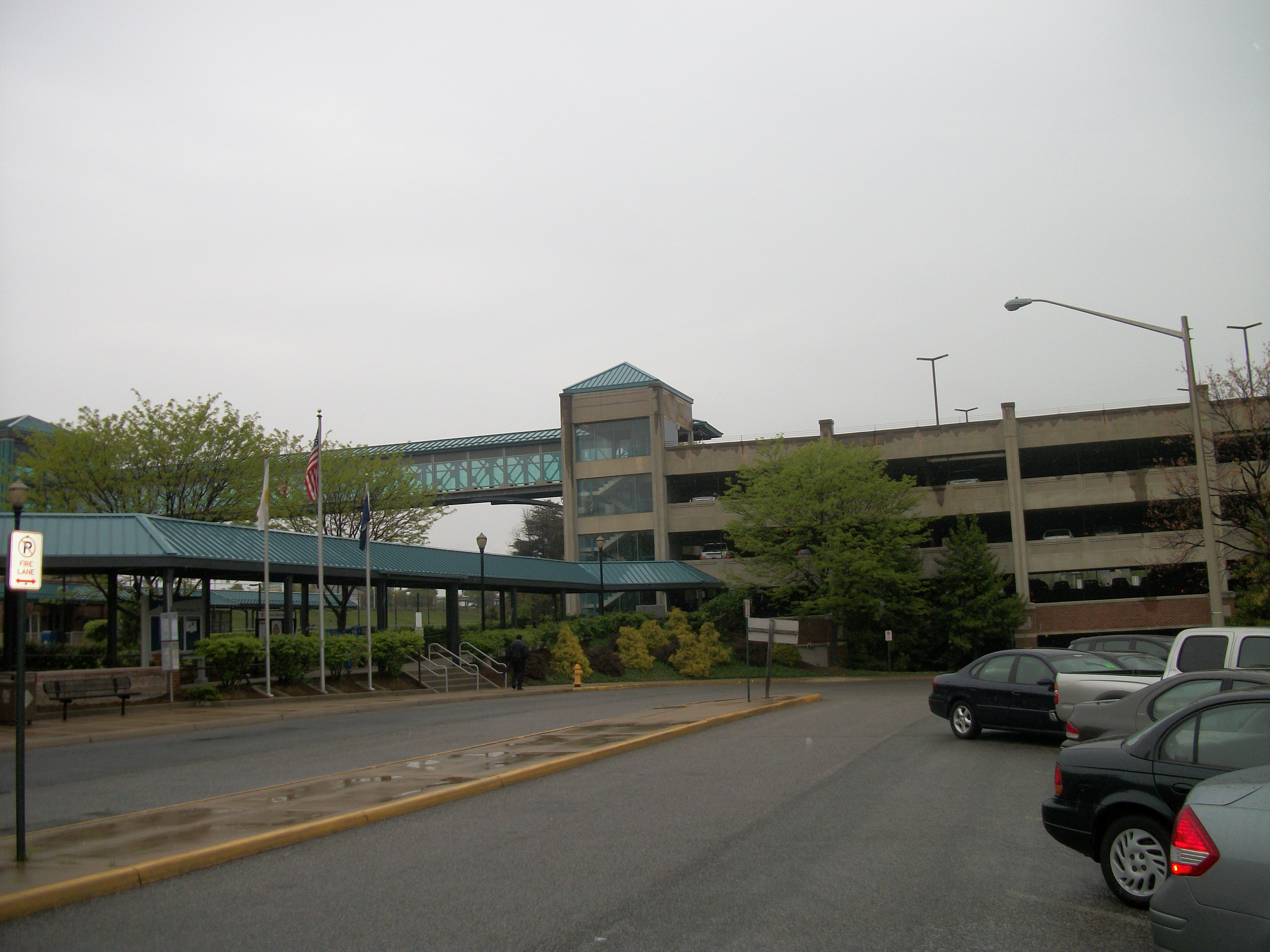 The parking garage at Woodbridge (VRE station) which also serves Amtrak trains in Woodbridge, Virginia. The station contains the coffee club cafe, a clock tower, a high pedestrian bridge over the tracks, and many other features which I wasn't able to capture.